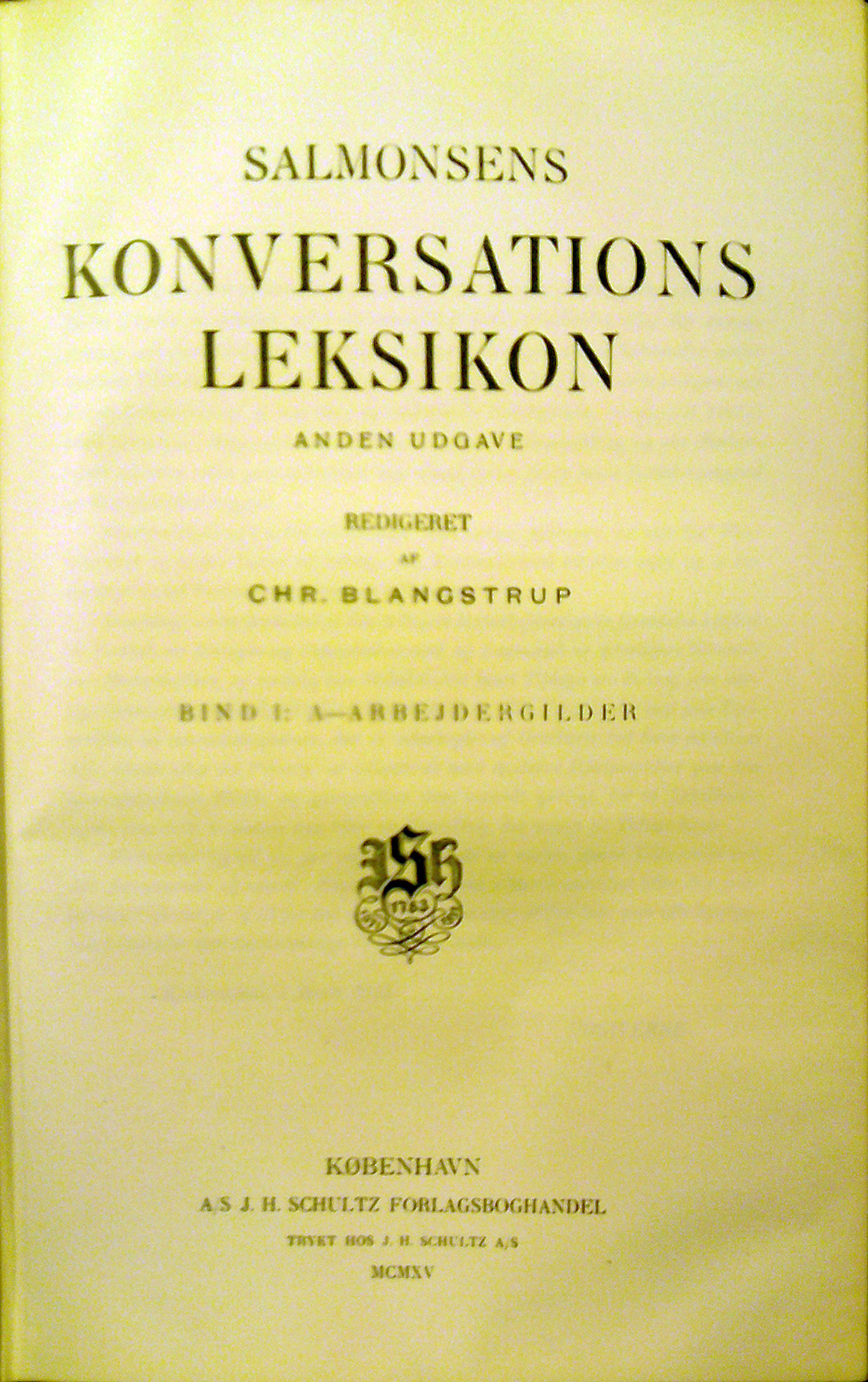 Titelblad til første bind af Salmonsens Konversationsleksikon, 2. udgave.